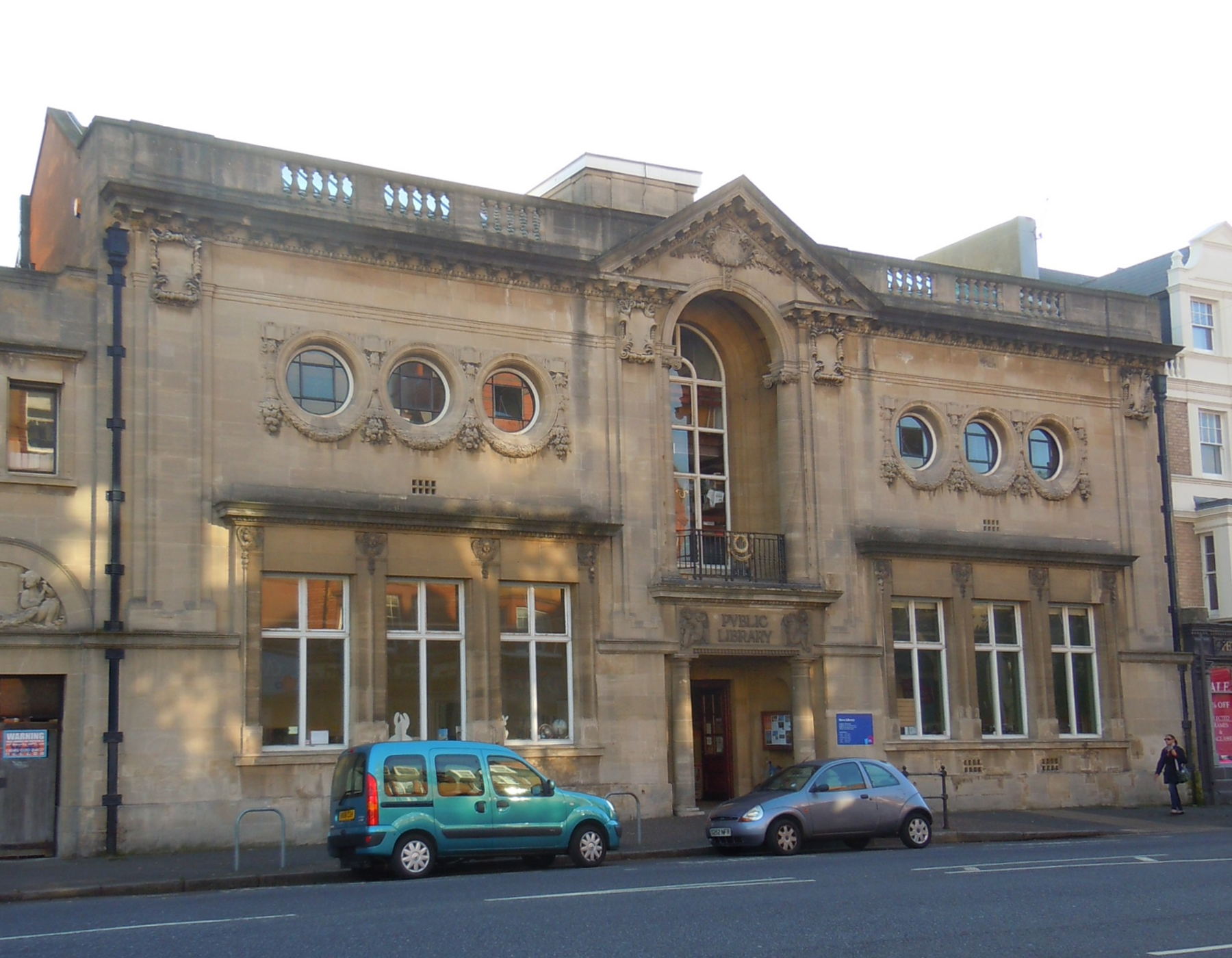 Hove Public Library, 182 Church Road, Hove, City of Brighton and Hove, East Sussex. Listed at Grade II by English Heritage (NHLE Code 1298670)